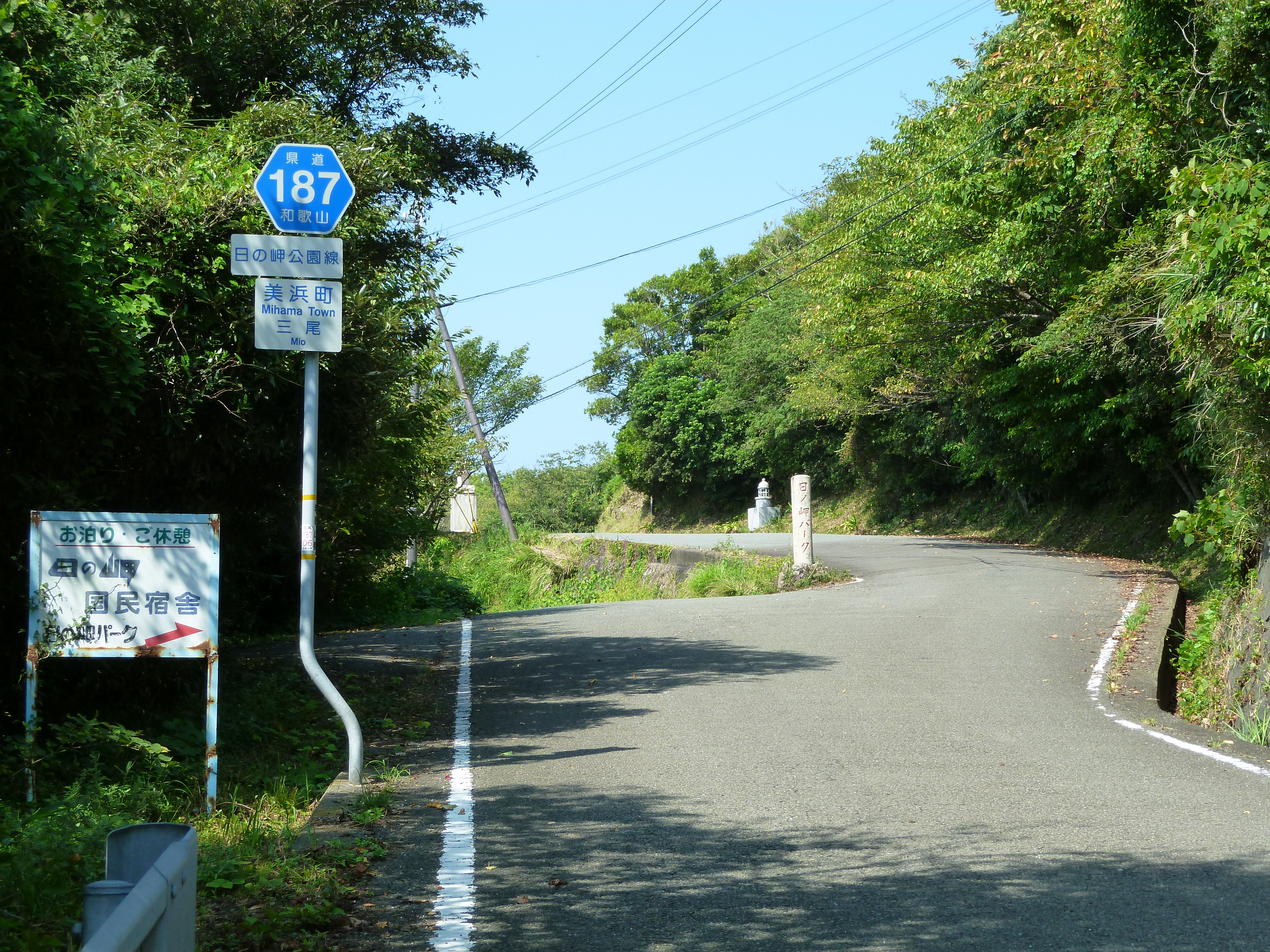 The Wakayama Prefectural Road Route 187 in Mio, Mihama Town